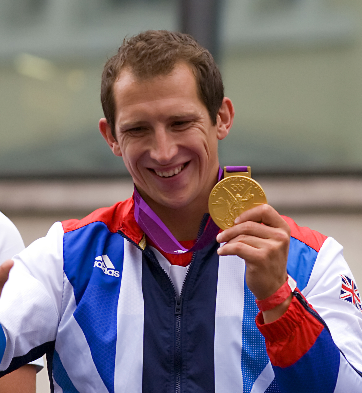 London 2012 Olympic & Paralympic Games Victory Parade, 10th September